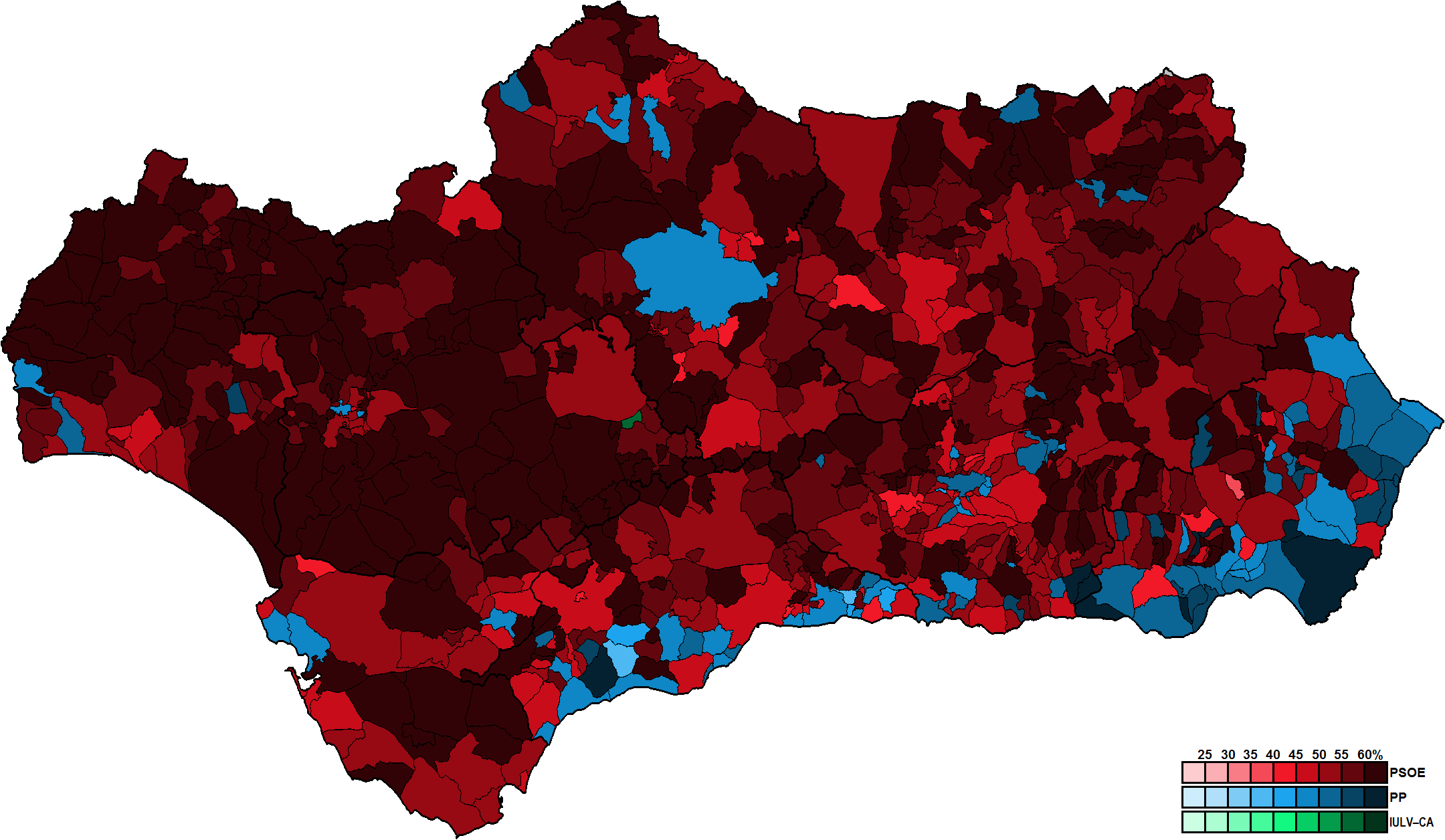 Most-voted party in Andalusia municipalities, showing vote share obtained, in the Spanish general election, 2008.